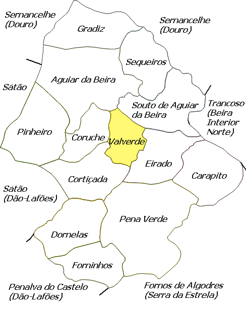 Map of Valverde parish in Portugal. Author: Kullanıcı:Mskyrider.